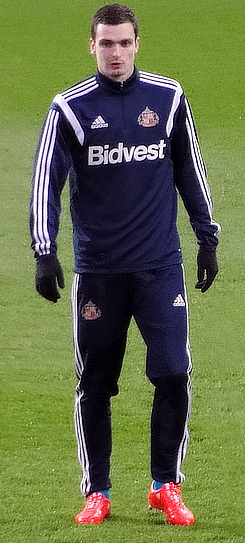 Sunderland player, Adam Johnson warming-up before their Premier League defeat to West Ham United at the Boleyn Ground.